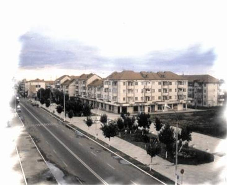 post card of Ianca city